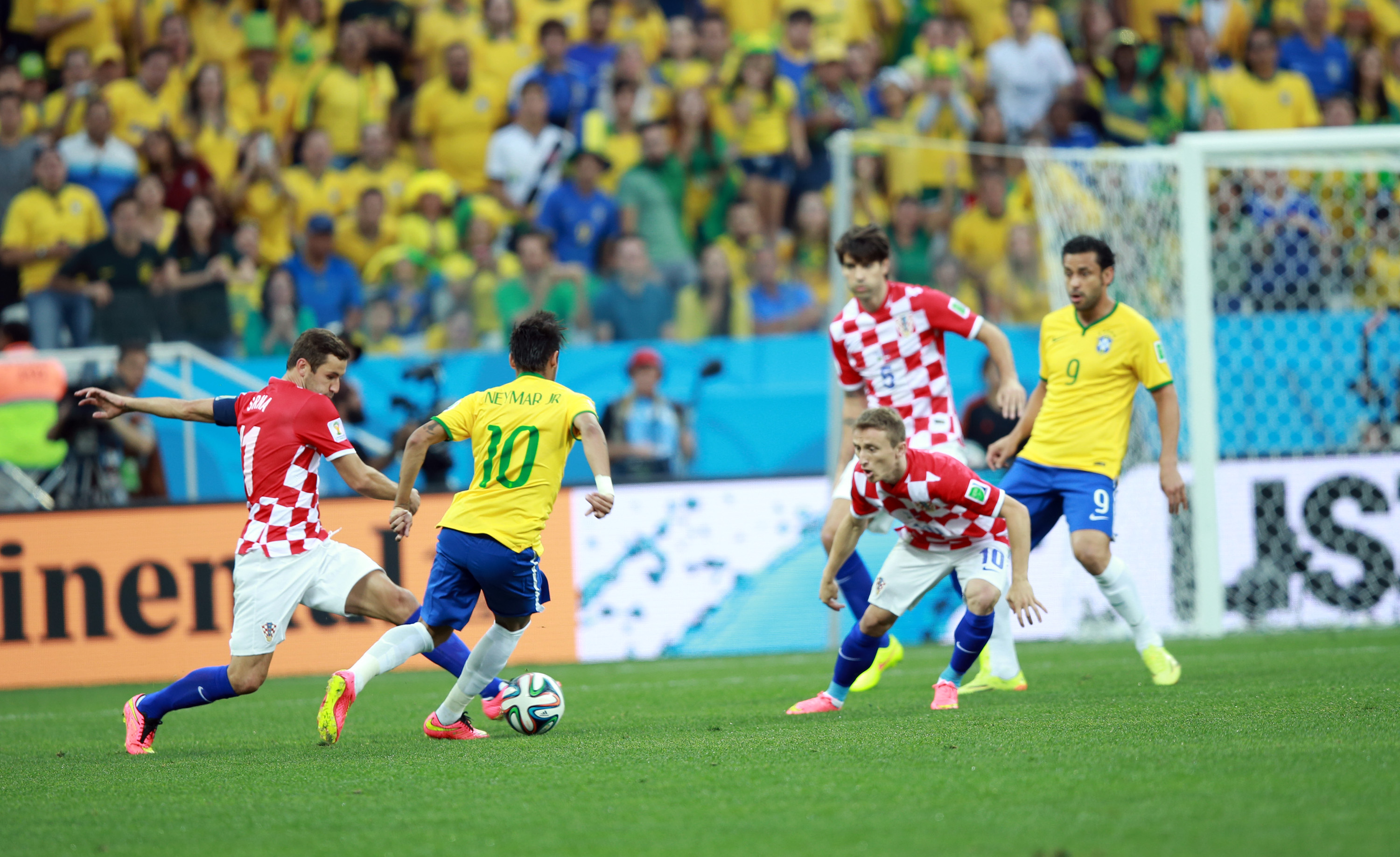 Brazil and Croatia match at the FIFA World Cup 2014-06-12